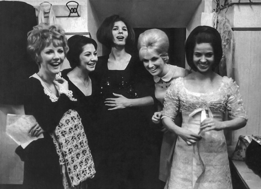 Petula Clark, Timi Yuro, Iva Zanicchi, Dusty Springfield and Audrey Arno in the dressing room of Sanremo Music Festival 1965.